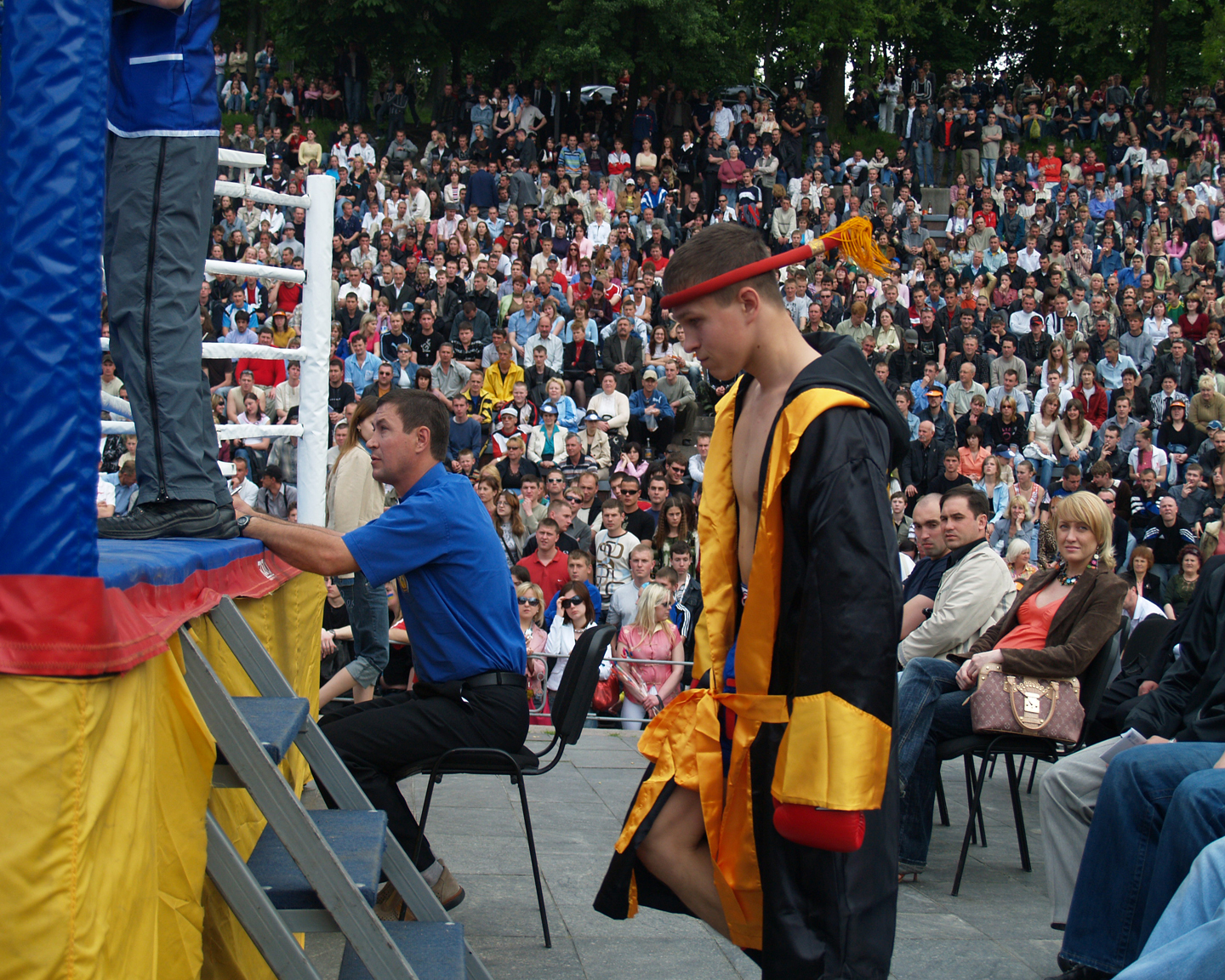 Max slipchenko